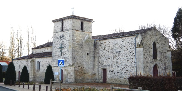 Saint-Laurent church, Saint-Laurs, Deux-Sèvres.